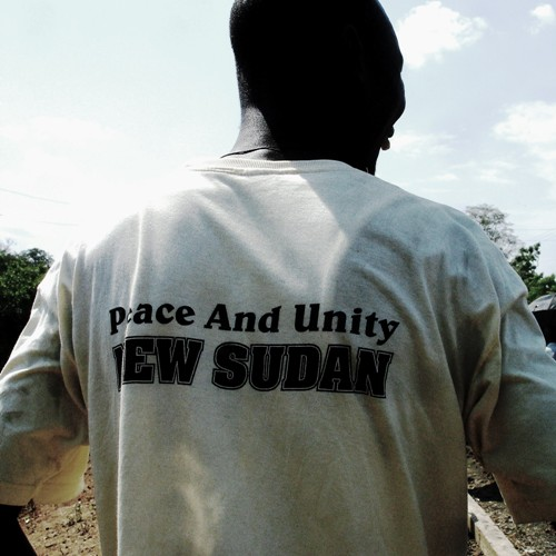 Amingo, a former child soldier in what was then Southern Sudan for the SPLA, wearing a t-shirt with the "New Sudan" slogan of SPLA leader John Garang for a united Sudan in diversity.